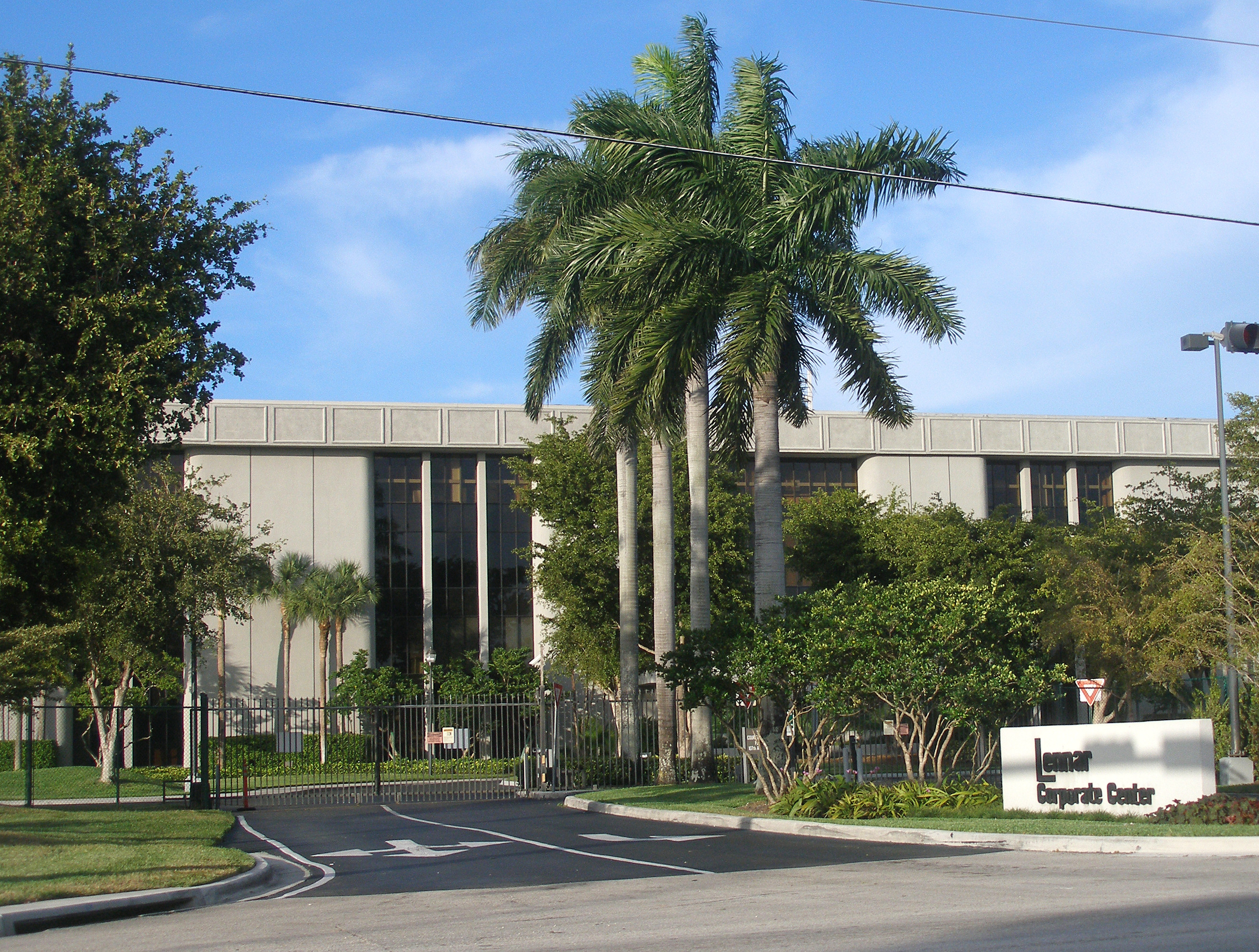 Lennar Corporation's headquarters in Fountainbleau.